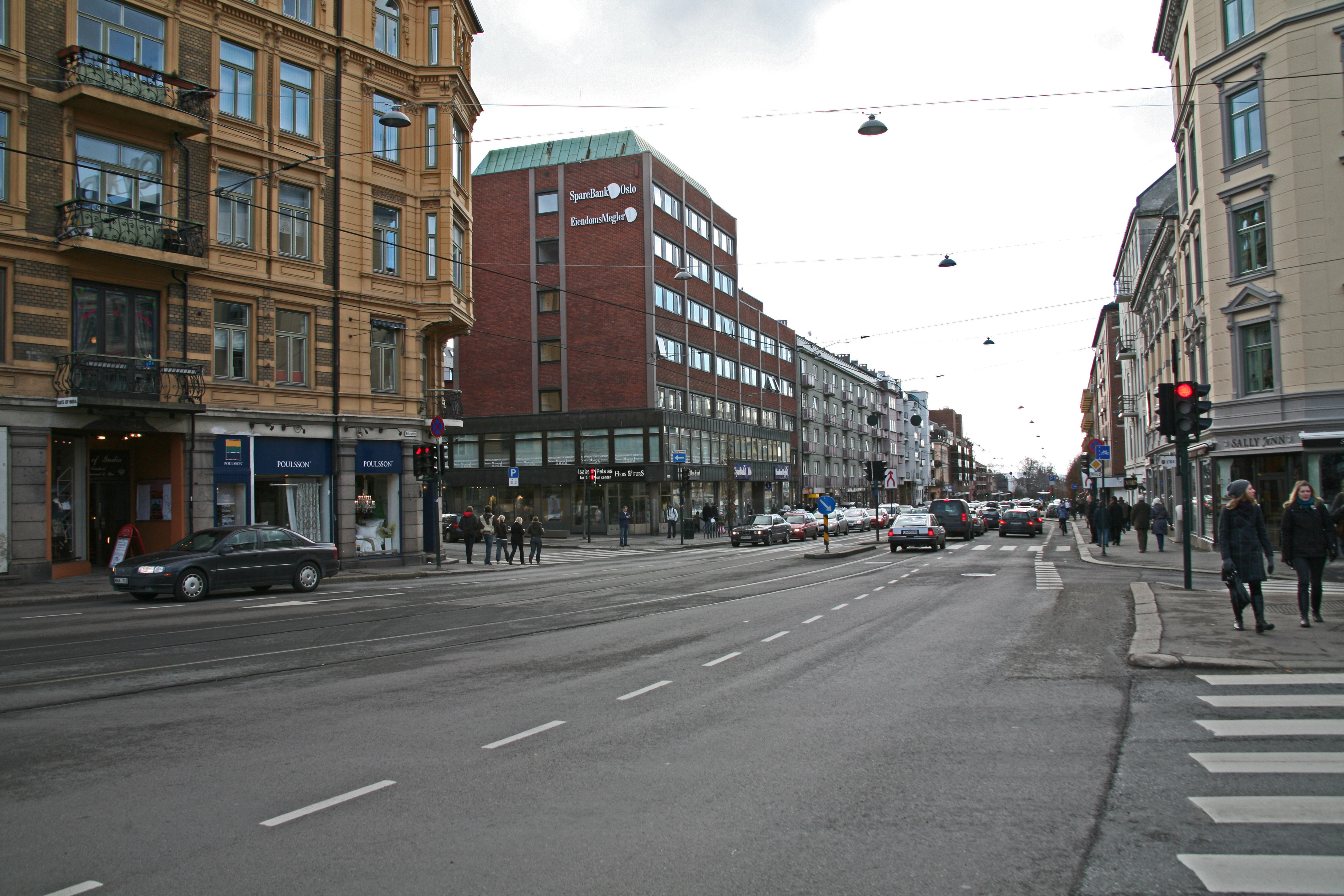 Picture of Kirkeveien (Oslo - Norway)